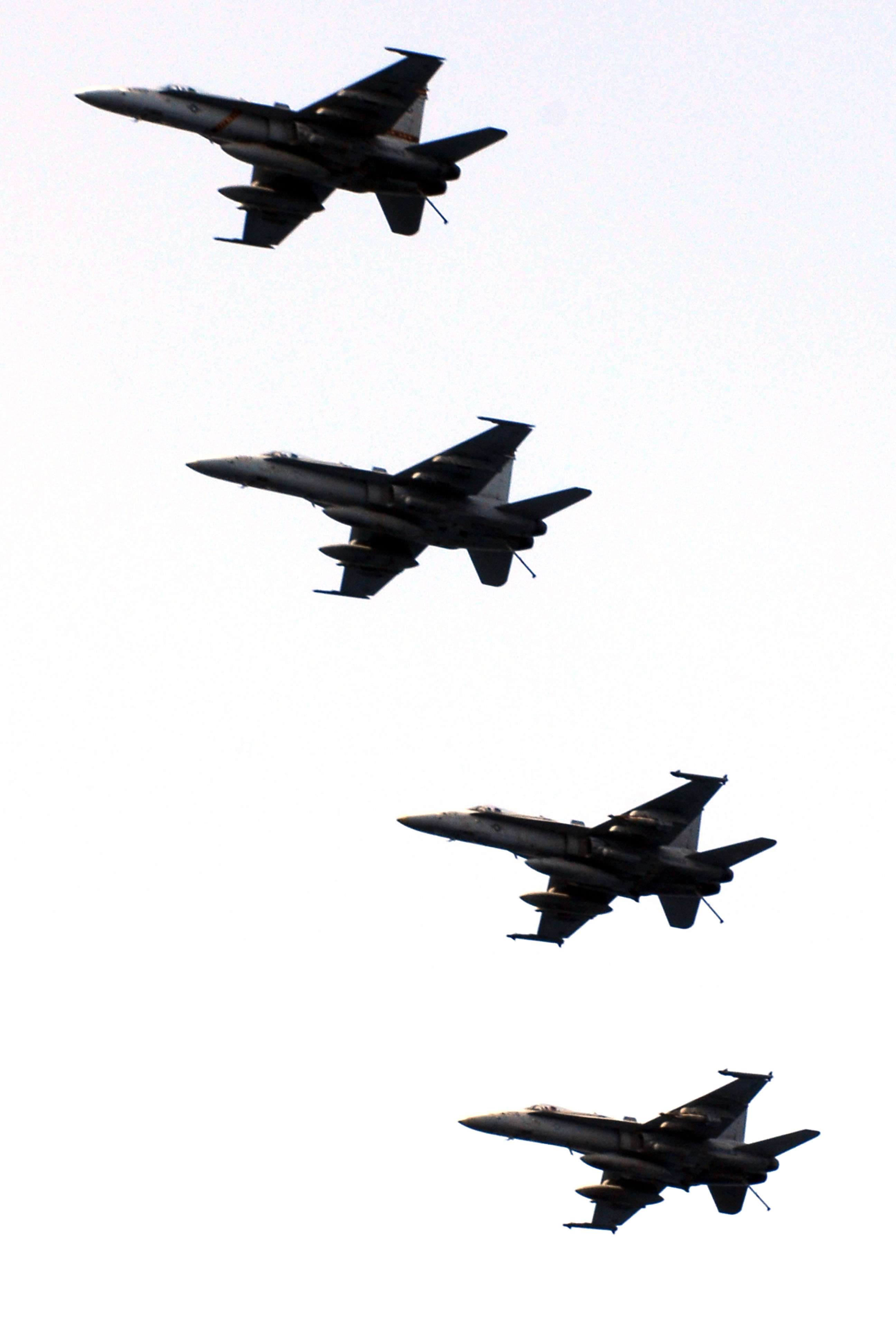 PERSIAN GULF (March 28, 2007) – Four F/A-18F Super Hornets, assigned to the "Black Knights" of Strike Fighter Squadron (VFA) 154, fly in formation over Nimitz-class aircraft carrier USS John C. Stennis (CVN 74) in preparation for landing. John C. Stennis Carrier Strike Group and Carrier Air Wing (CVW) 9 are conducting a dual-carrier exercise with Eisenhower Carrier Strike Group and Carrier Air Wing (CVW) 7. This marks the first time the Stennis and Eisenhower strike groups have operated together in a joint exercise while deployed to 5th Fleet. U.S. Navy photo by Mass Communication Specialist Seaman Josue Leopoldo Escobosa (RELEASED)